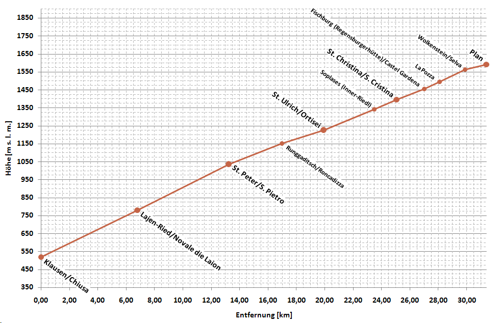 simplified altitude-profile of railway track Klausen–Plan